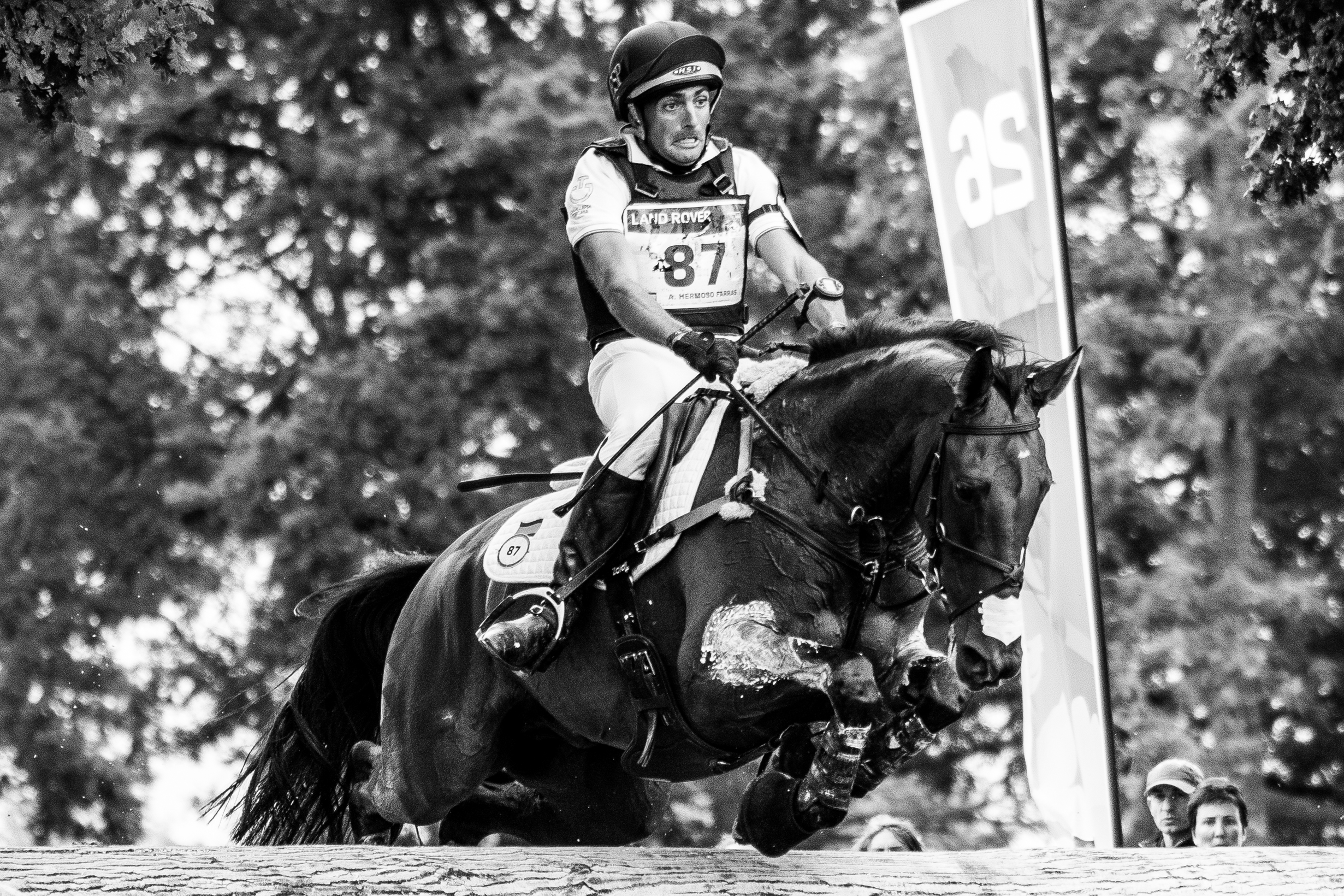 Albert HERMOSO FARRAS (ESP) - HITO CP, HIGH AllTech FEI World equestrian games 2014 in Normandy - Cross-country phase of Eventing at Haras du Pin